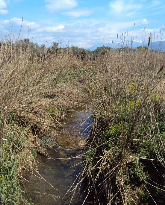 Serdini torrent flowing through Fostena and Avgereika villages, Achaia, Greece.